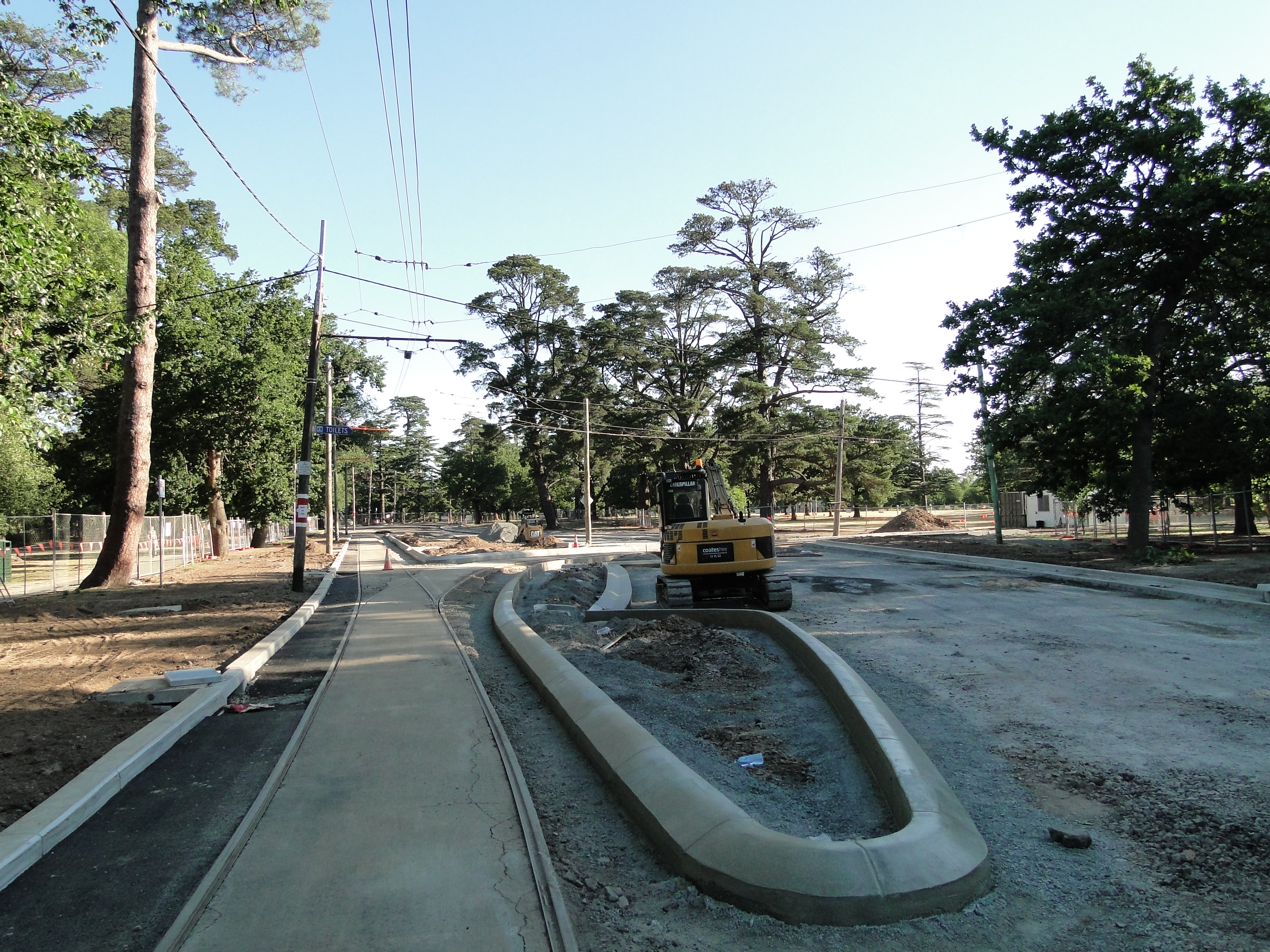 Roadworks in Ballarat, Victoria, to realign road and tram track crossing to make a safer crossing point for bicycles.